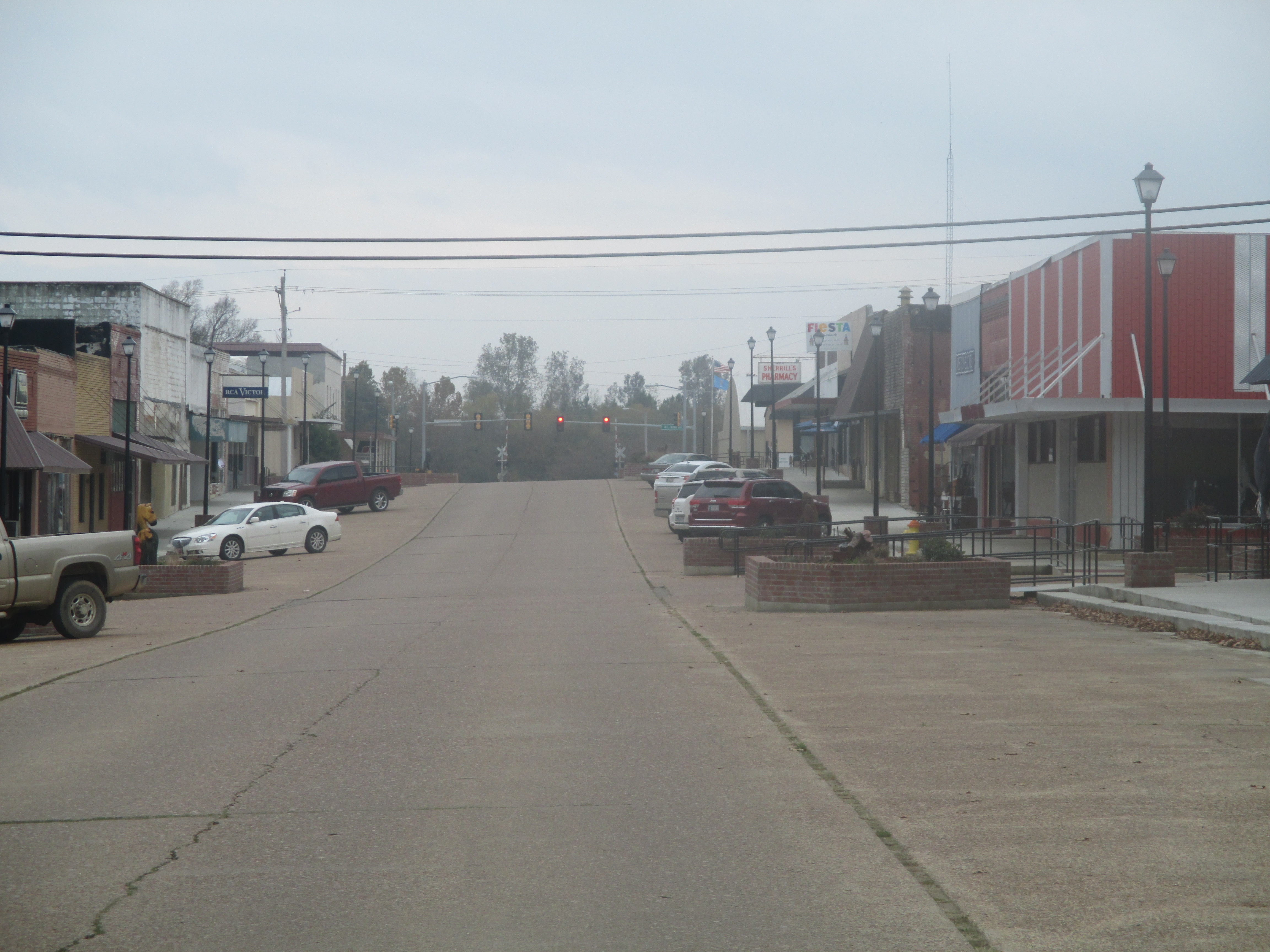 I took photo with Canon camera of downtown Broken Bow, OK.